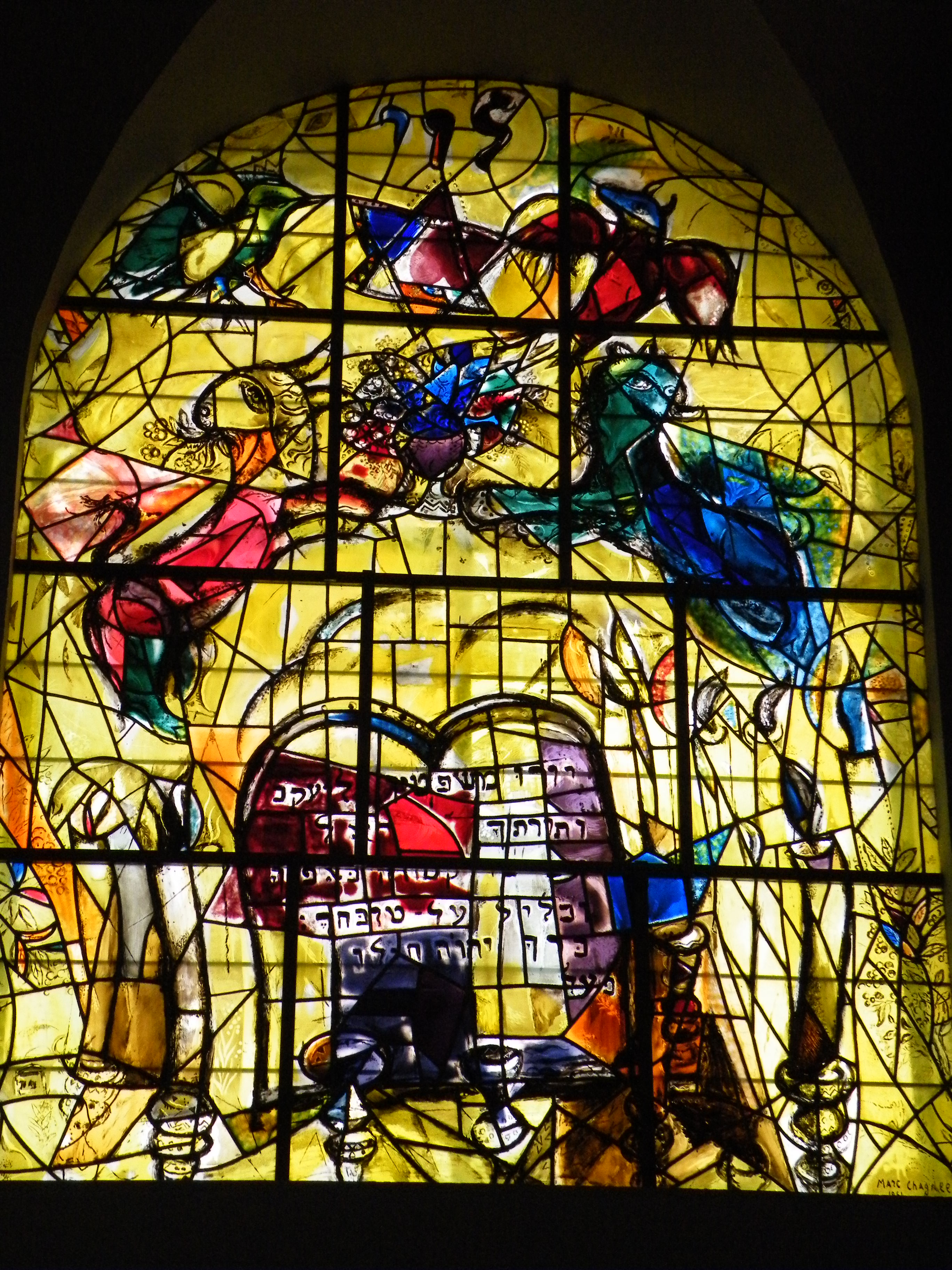 Hadassah Hospital, Ein Kerem, Jerusalem, Israel - The gorgeous stained glass windows in the synagogue depicting the symbols and devices of the priestly caste of the Israelites, the Tribe of Levi.